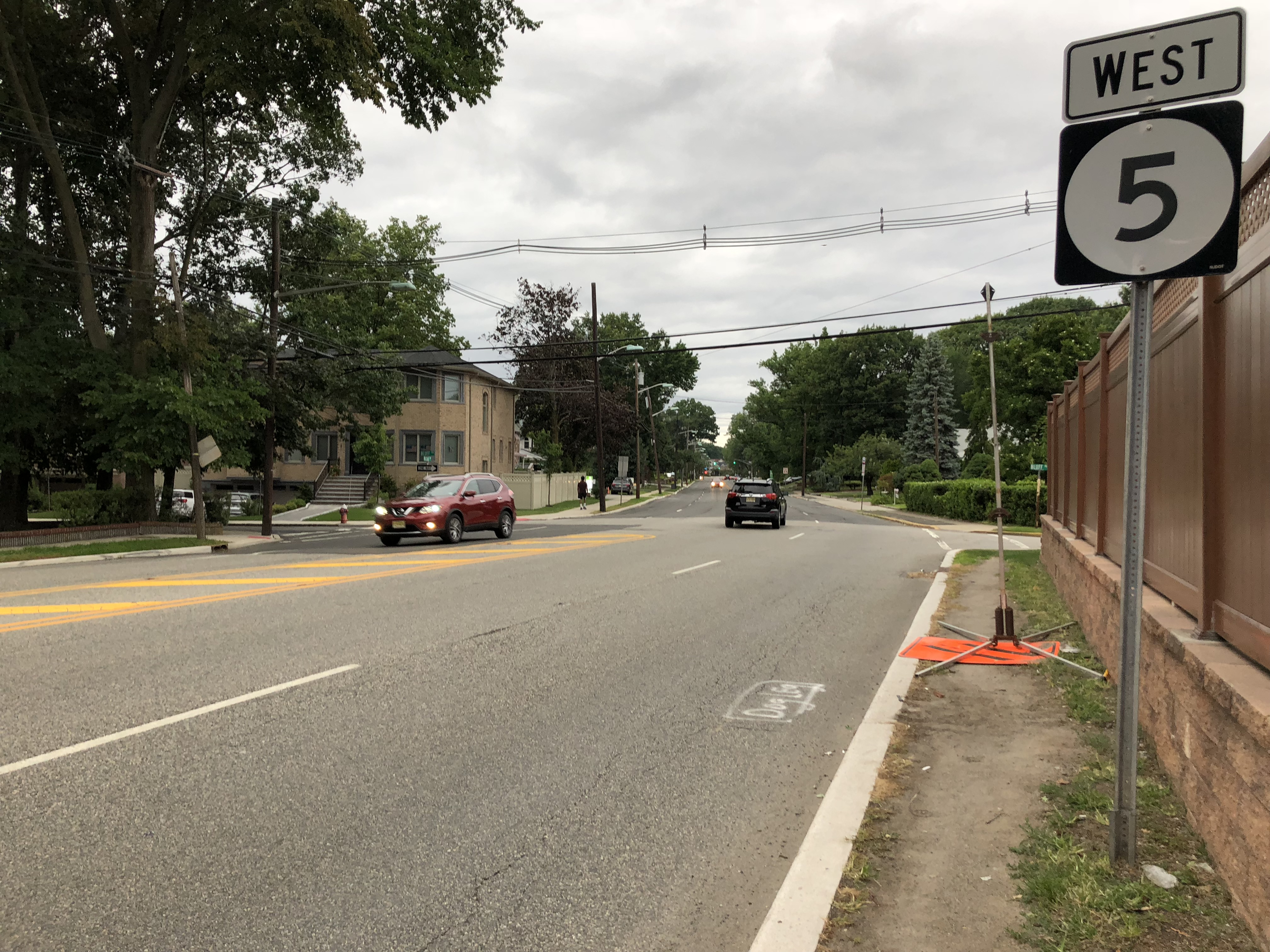 View west along New Jersey State Route 5 (Palisade Avenue) at Bluff Road in Fort Lee, Bergen County, New Jersey